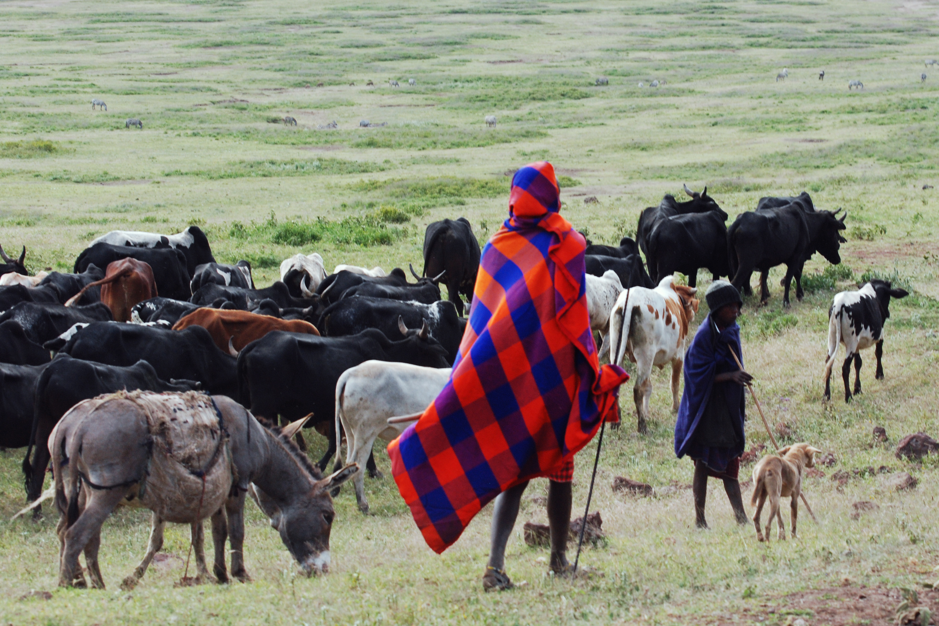 The Maasai taking their livestock into the Ngorongoro Caldera for grazing